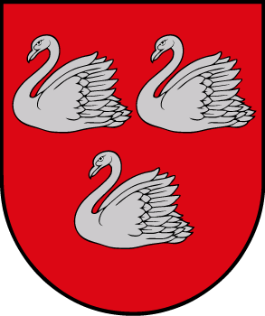 coat of arms of Gulbene Municipality, Latvia.